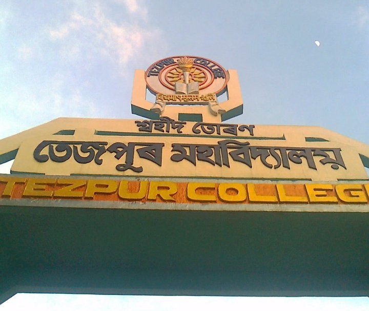 Entrance of Tezpur College.